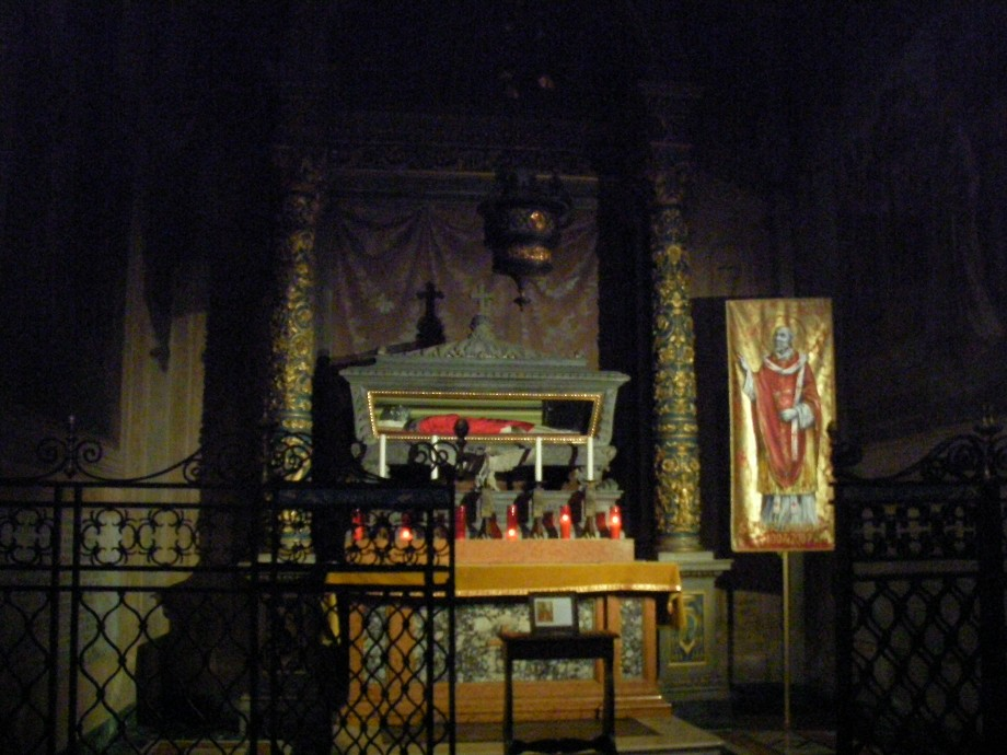 The chapel devoted to St. Pier Damiani where the urn is found, in the cathedral of St. Pietro to Faenza